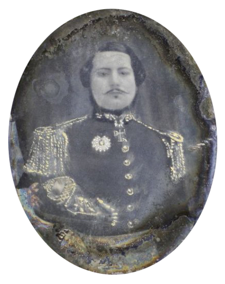 Daguerreotype of Francisco Solano López around the age of 28 taken in Paris, c.1854.